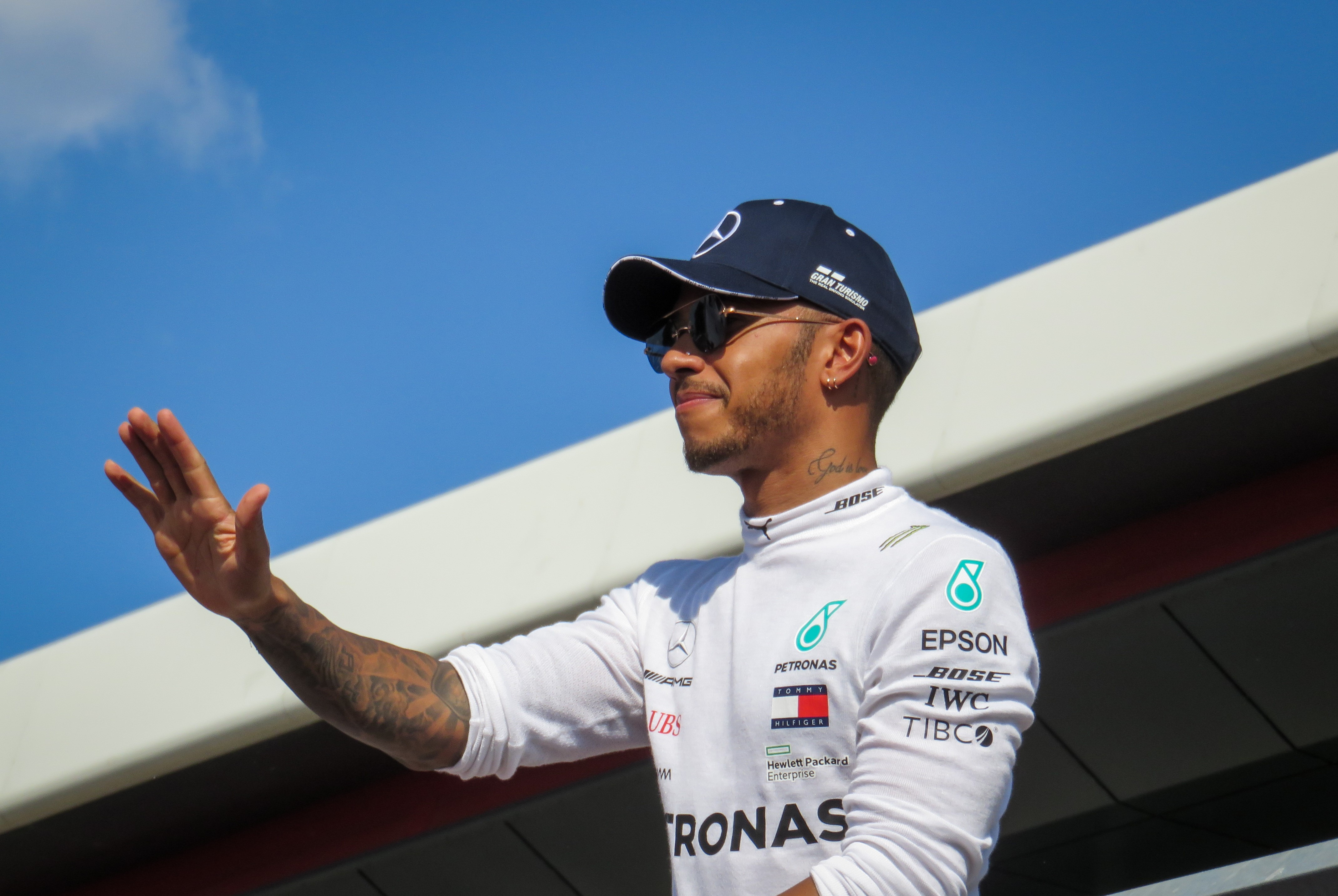 2018 British Grand Prix.